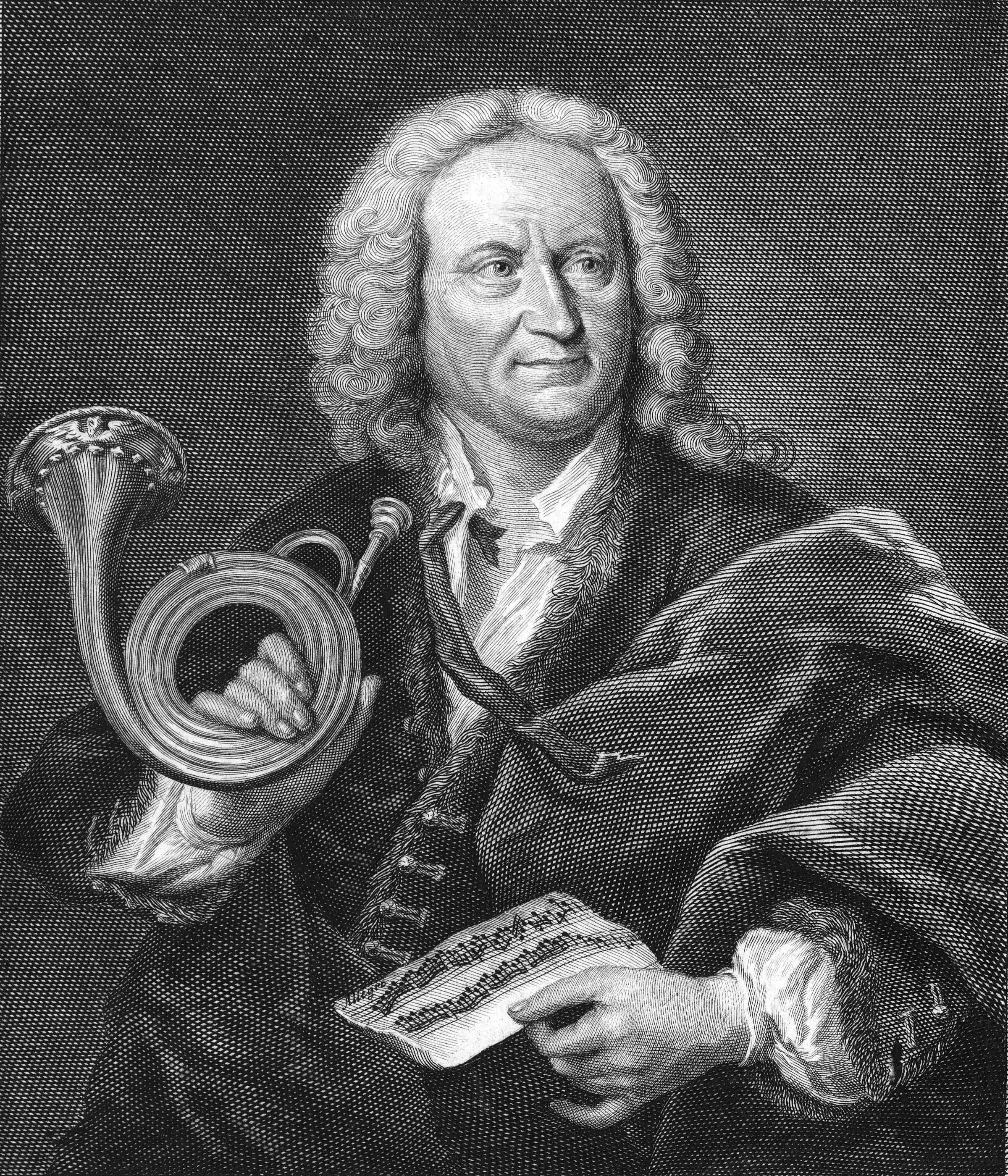 Depicted person: Gottfried Reiche